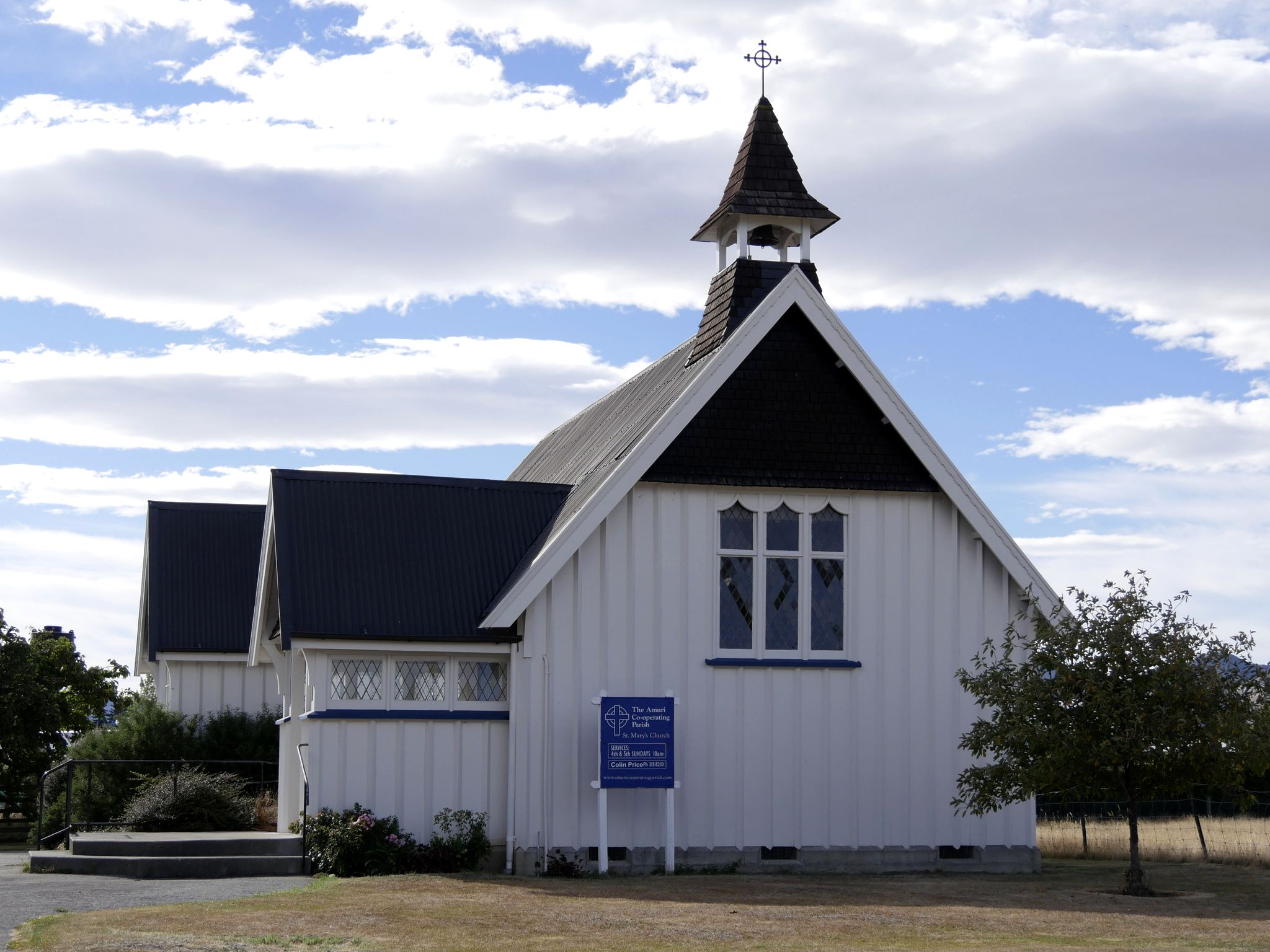 St Mary's Church, Rotherham, Hurunui District, Canterbury Region, South Island, Zew Zealand